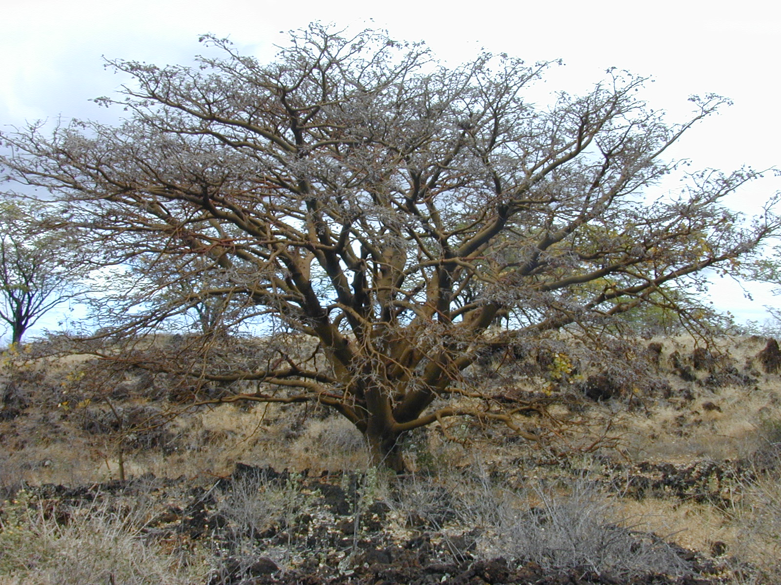 Erythrina sandwicensis (habit). Location: Maui, Puu o Kali